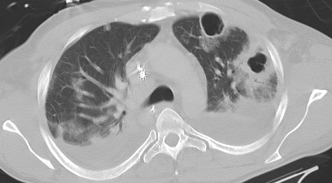 Computed tomography (CT) scan of chest showing bilateral pneumonia with abscesses, effusions, and caverns. 37 year old male.